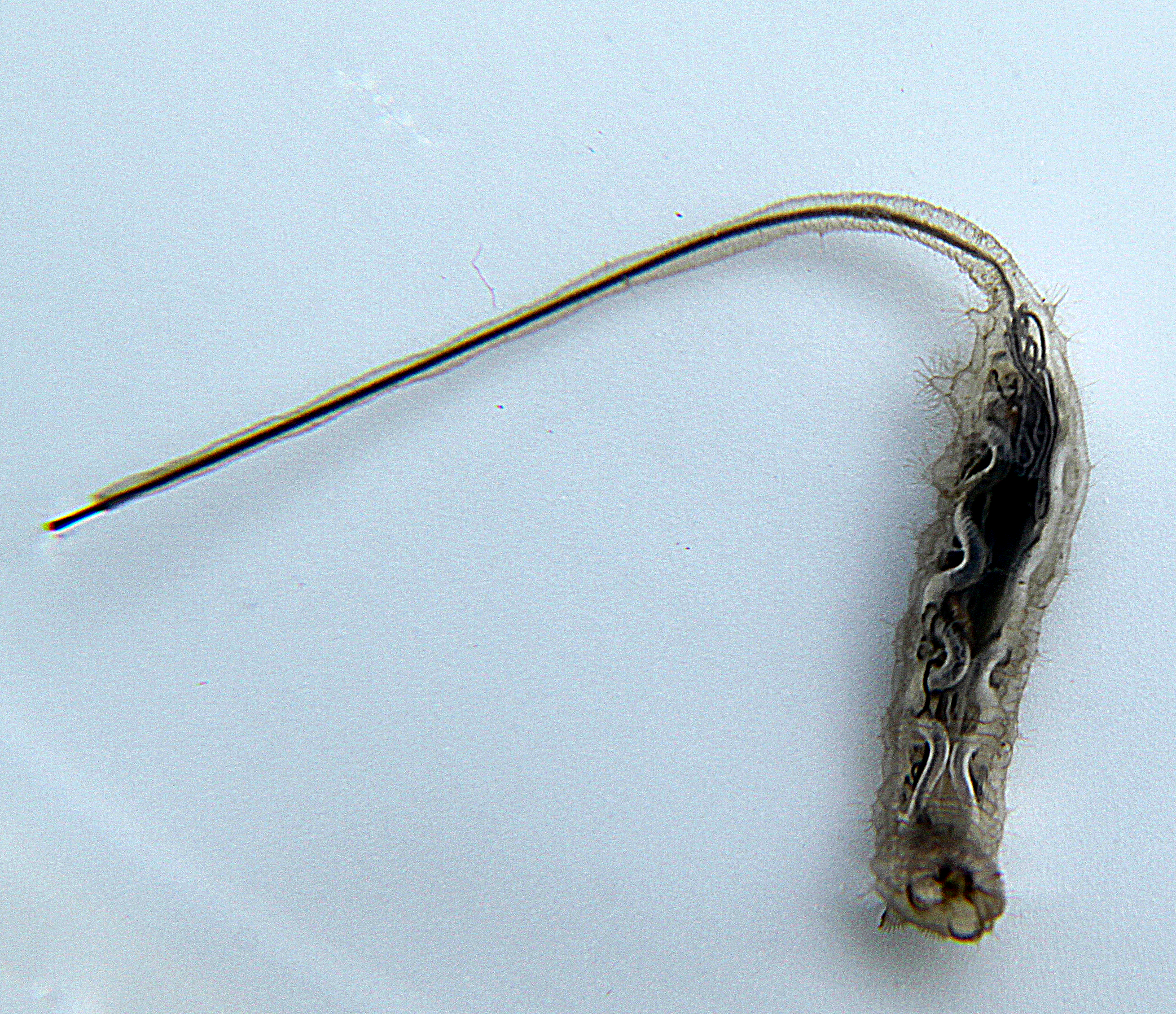 larva of a hoverfly from the rain barrel in our garden in Rozenburg, Netherlands